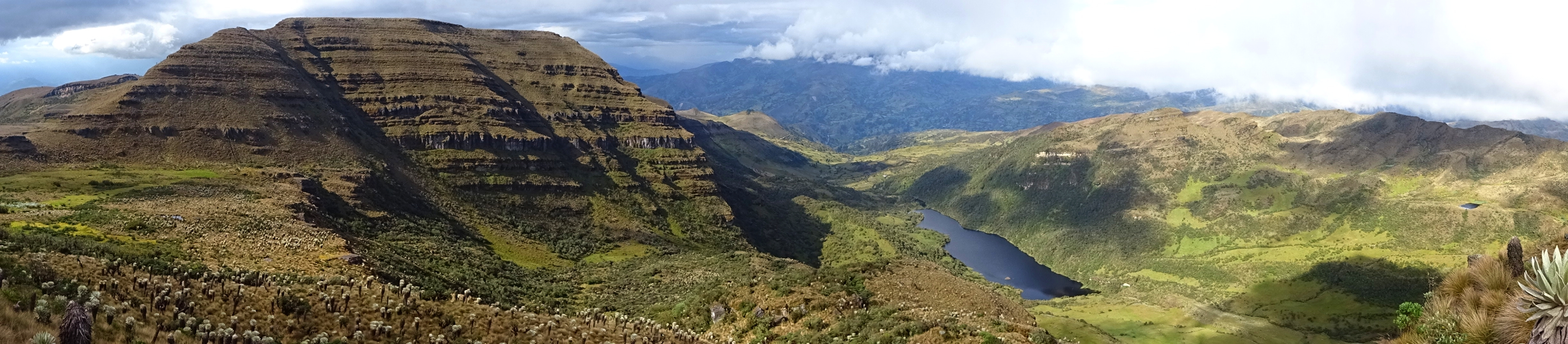 Panorama of the "Cerro de Águilas" and "Laguna Negra", Páramo de Ocetá, Boyacá, Colombia